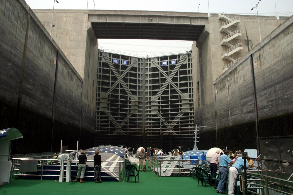 In_the_locks_at_the_three_gorges_dam